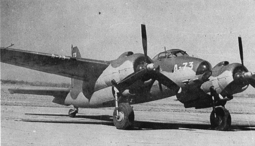 I.Ae. 24 Calquin aircraft on the ramp.